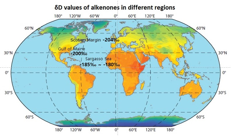 Modified by inserting the data from [Englebrecht, A. C. Sachs. J. P. (2005) Determination of sediment provenance at drift sites using hydrogen isotopes and unsaturation ratios in alkenones. Geochimica et Cosmochimica Acta. 69. 17:4253-4265.] on the map from Annu.Rev.Earth Planet.Sci.2010.38:161-187.